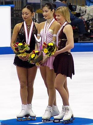 The ladies podium at the 2004 NHK Trophy. From left: Miki Ando (2nd), Shizuka Arakawa (1st), Elena Sokolova (3rd)